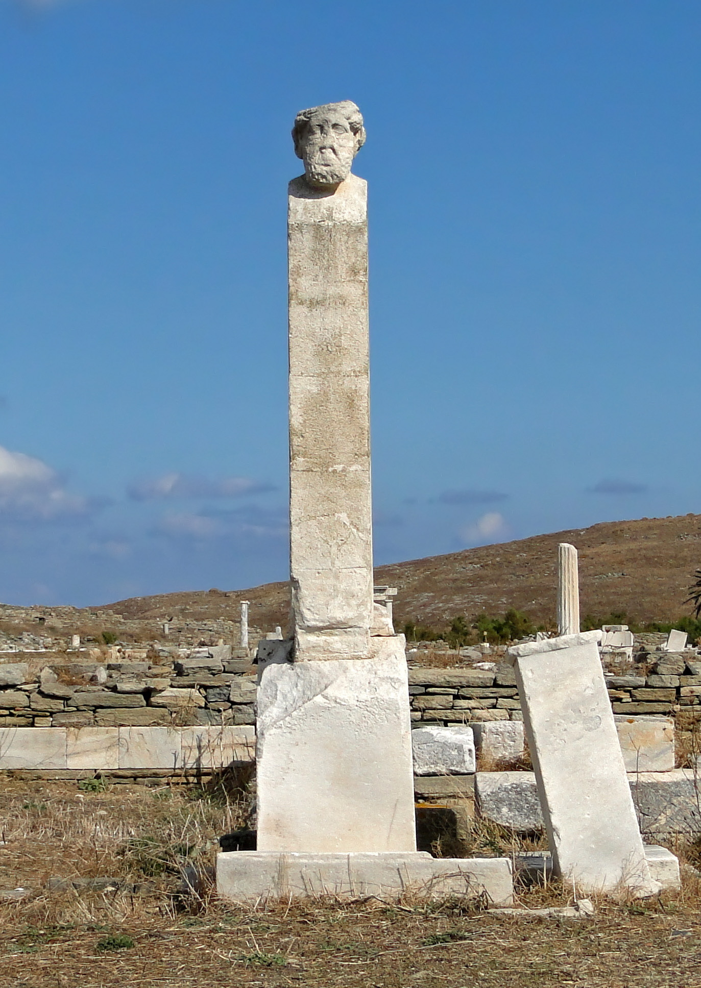 Bust of Hermes in Delos, Greece